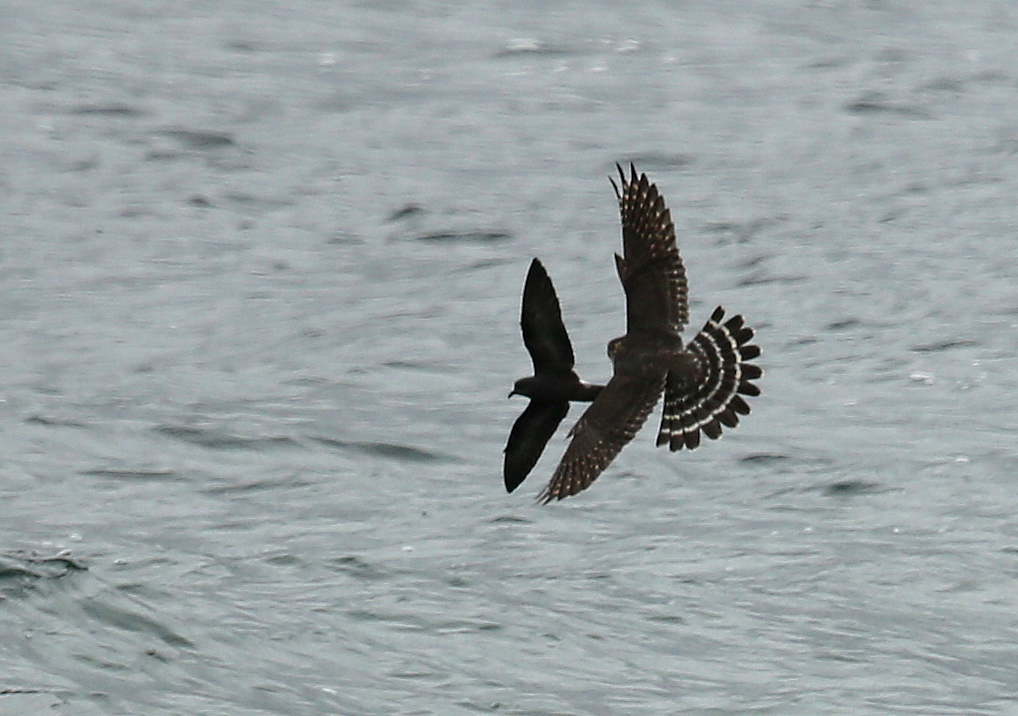 Leach's Storm Petrel Oceanodroma leucorhoa escaping from attack by Merlin Falco columbarius, Cayuga Lake, New York. The petrel flew in from behind us at 11:48 AM, over the docks, presumably from inland. Flew right by us at the lighthouse, at most 3 m away. Started pattering on the water in front of us and was quickly attacked by a Merlin that made several passes at it. Eventually, the Merlin left and the petrel started moving south over the water.